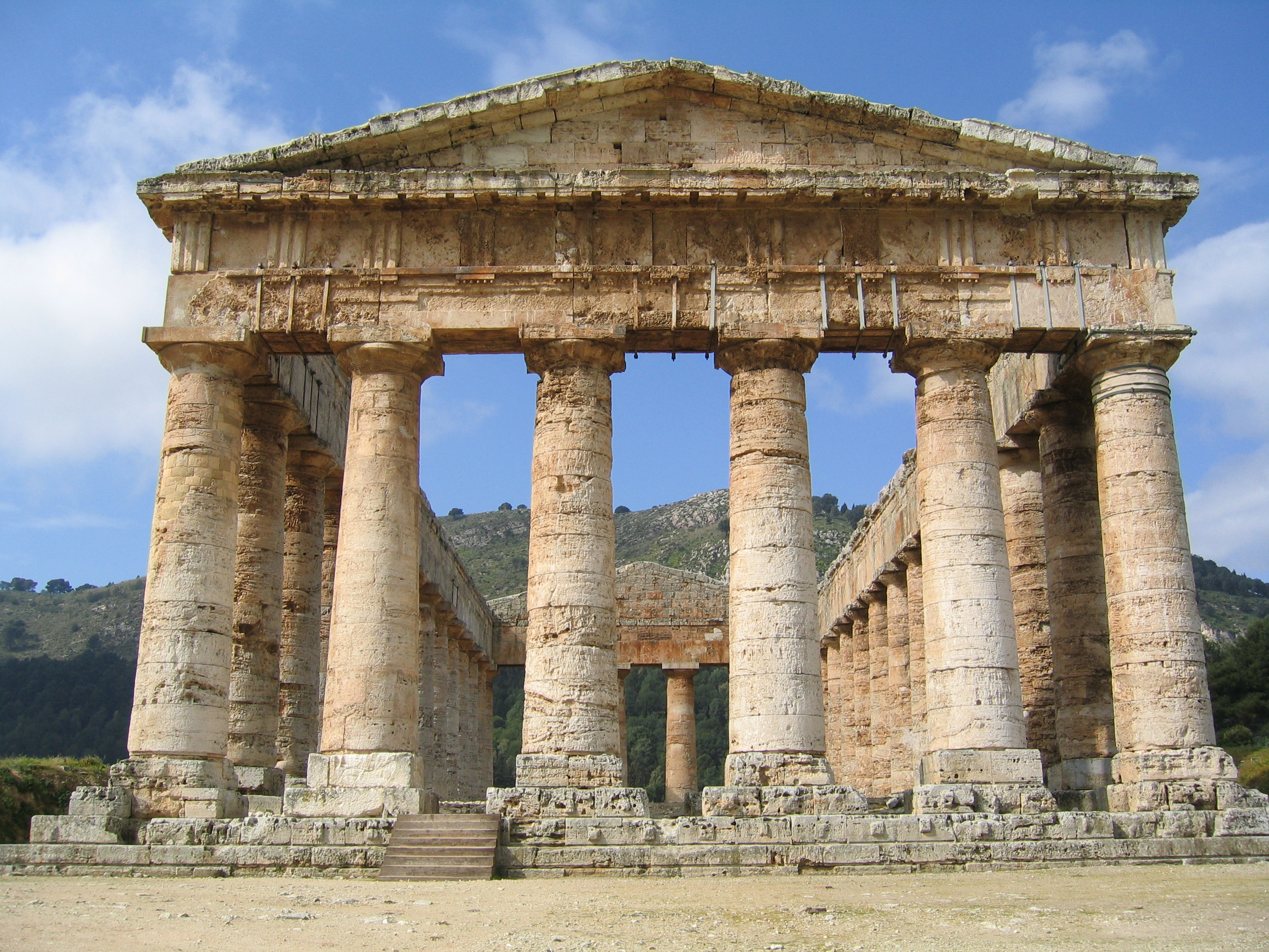 Doric Temple - Segesta, Italy